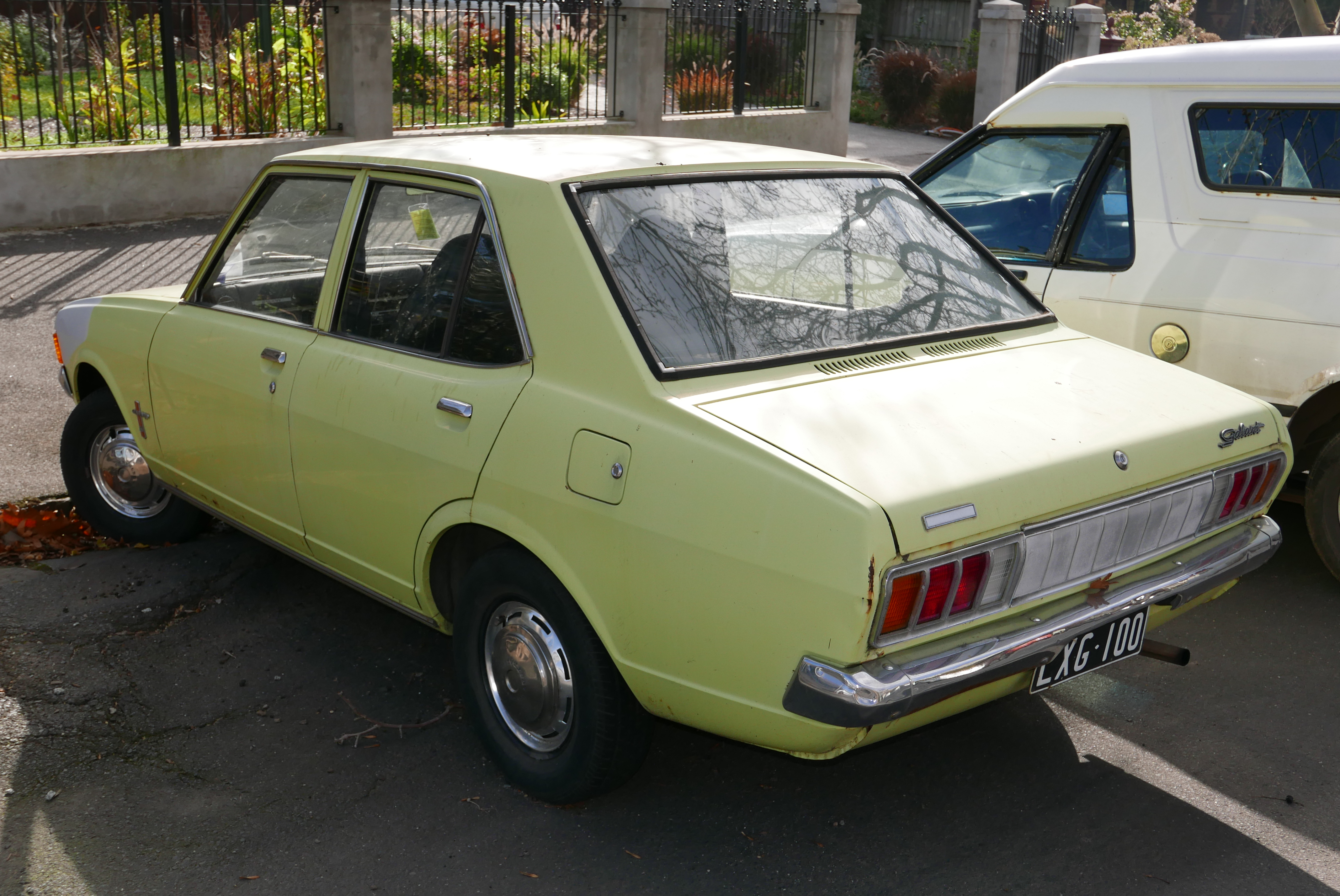 1974 Chrysler Valiant Galant (GB) GL sedan. Photographed in Fitzroy North, Victoria, Australia. Vehicle registration enquiry results Jurisdiction Victoria Registration LXG100 Chassis code Not available Engine code 2B12017 Compliance date Not available Year of manufacture 1974